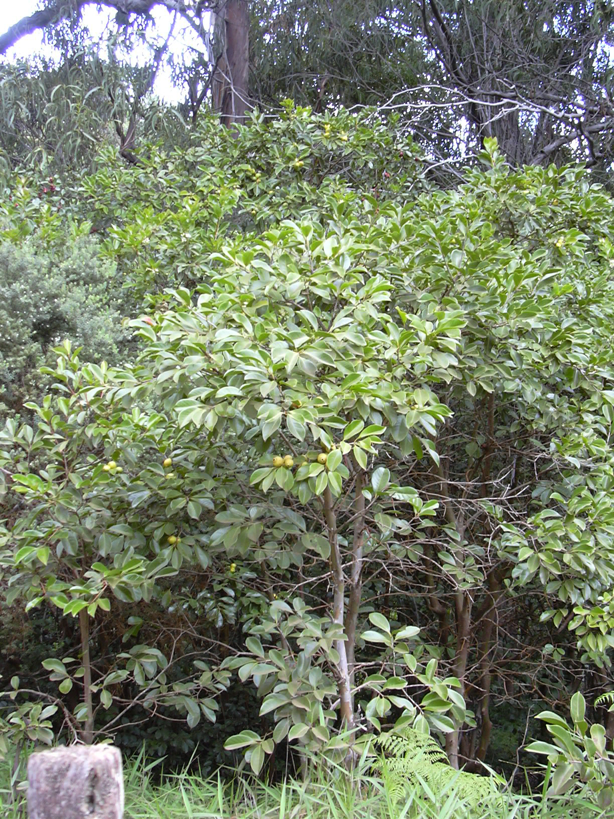 Psidium cattleianum (habit yellow fruits). Location: Maui, Piiholo